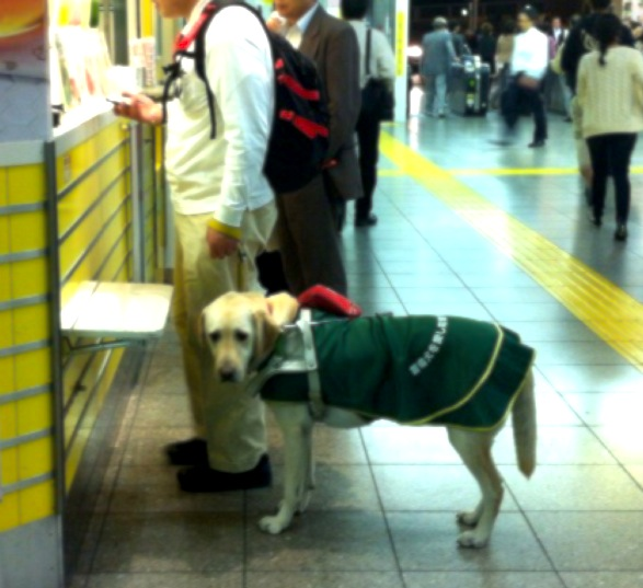 Japanese Seeing Eye Dog